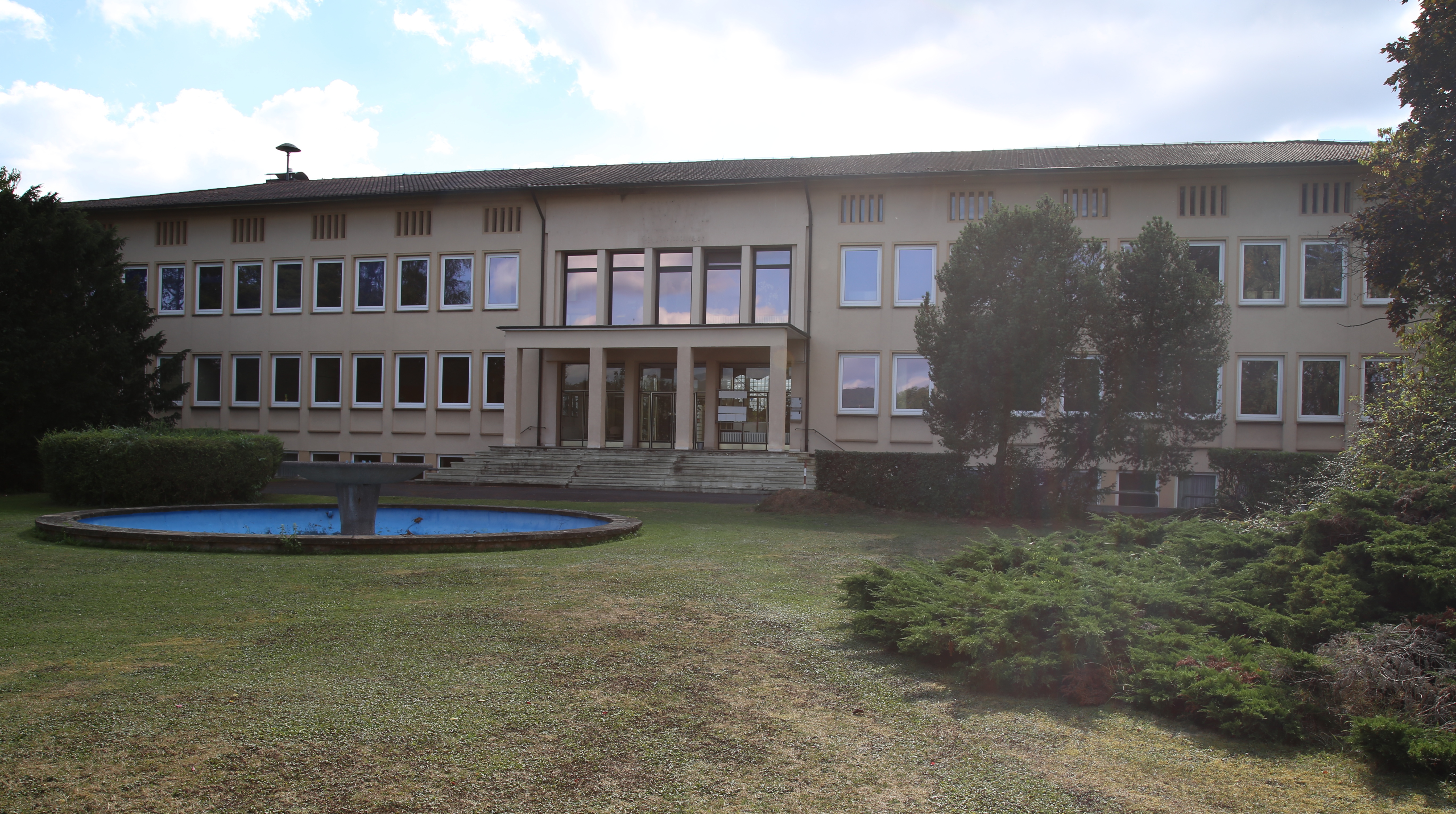 Former headquarters of Quelle-Lehnig AG in Eschwege